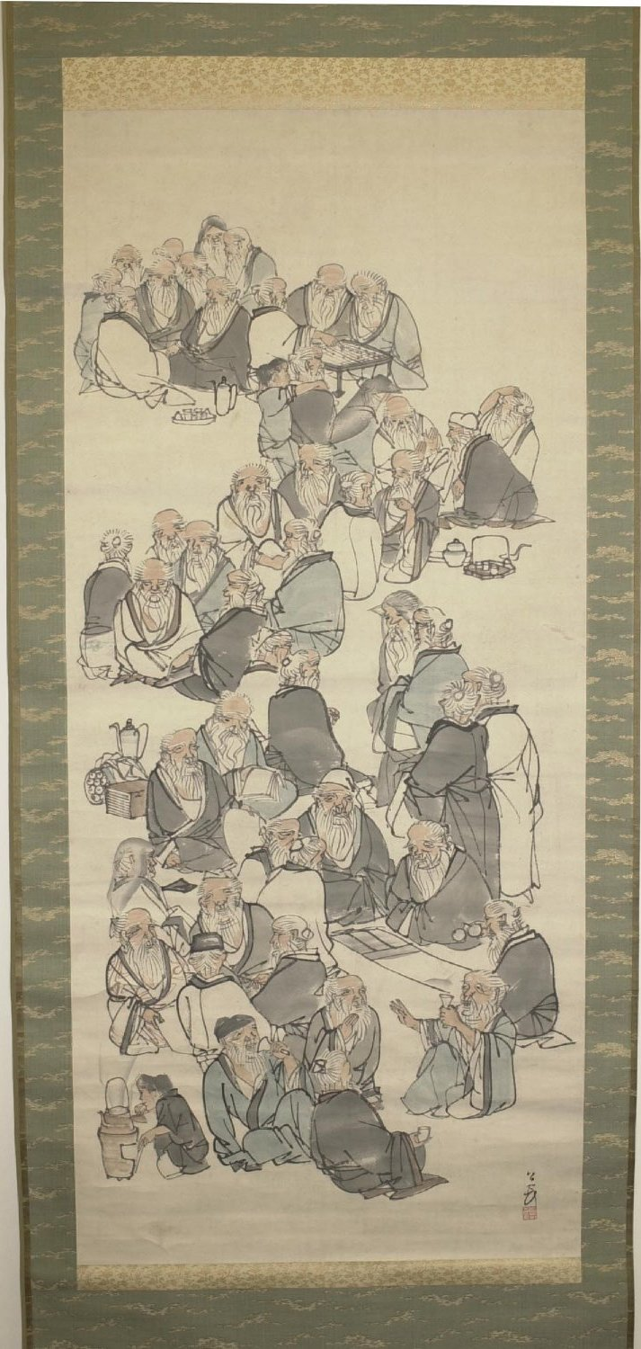 Museum number: 1989,1026,0.4 Title (object): Seien gashu no zu (Elegant Gathering in the Western Garden) Producer name: Painted by: Ueda Kocho (上田公長) Materials: paper, ivory (jikusaki)